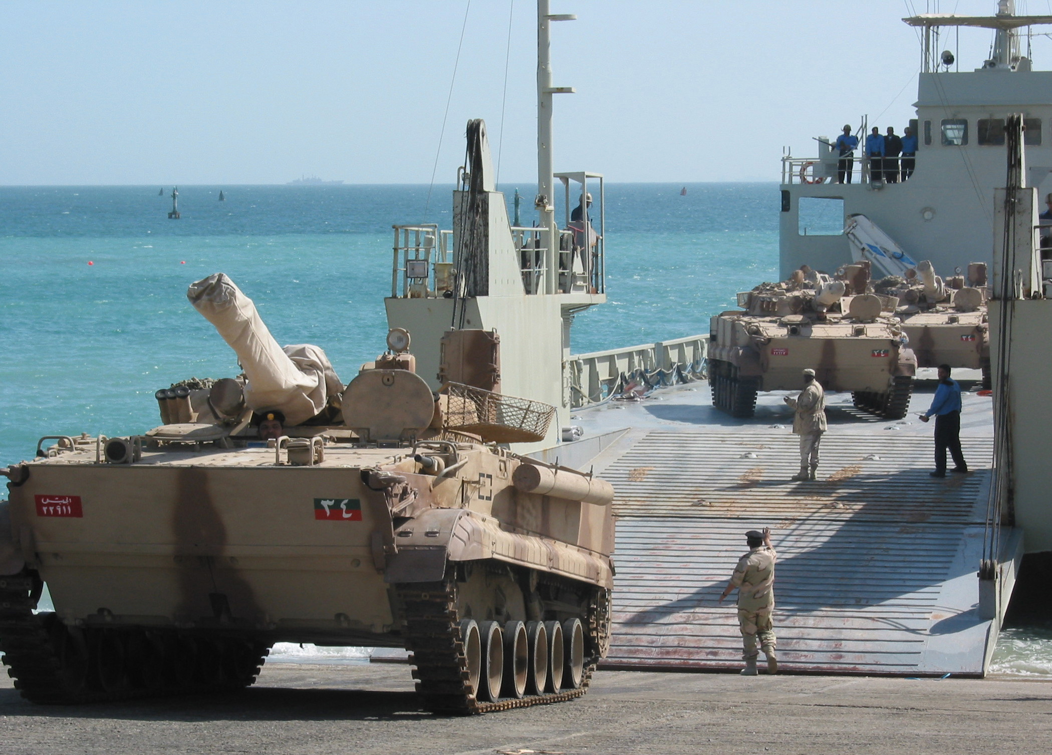 Camp Patriot, Kuwait (Feb. 23, 2003) -- The Gulf Country Council (GCC) continues its protective buildup of member state Kuwait, in preparation for possible war in Iraq. The United Arab Emirates (UAE), a GCC member, offloads a BMP3 Tank at a Kuwaiti port facility from its Elbahia L62 landing craft. The GCC is comprised of Kuwait, UAE, Saudi Arabia, Bahrain, Oman and Qatar continues its 12-year cooperation with a show of support for its Gulf neighbor. U.S. Navy photo by Journalist 1st Class Joseph Krypel. (RELEASED)